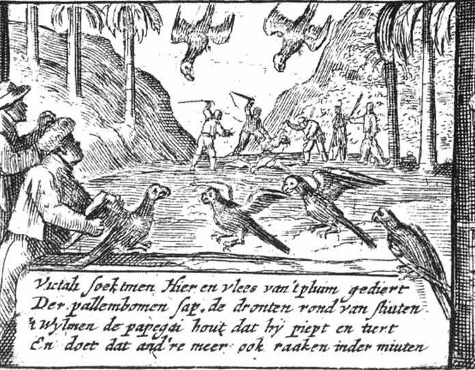 A hunt on dodos for food. The text with the engraving reads: Nourishment men seek here and flesh of't plumed creatures Of the palm trees' sap, the dodos round of hinds All while men the parrot hold that he pipes and shrieks And cause that others besides also befall the coops An engraving the publisher H. Soete Boom had made for the journal of Willem Van West-Zanen (c 1602) showing the killing of dodos (center left, depicted as penguin-like), a seacow (Dugong dugong, now extinct from the area) and perhaps Thirioux’s grey parrot (Psittacula bensoni, bottom).[1] Travellers on Mauritius described how easy it was to catch the parrot by capturing one and making it call out, which would summon an entire flock, and this is shown in the drawing. Willem van West-Zanen recalls in his travel report that his men took 50 birds aboard in one day, among which were 24 or 25 dodos, which in his estimation were sufficiently large that only two sufficed to feed the whole crew.[2]